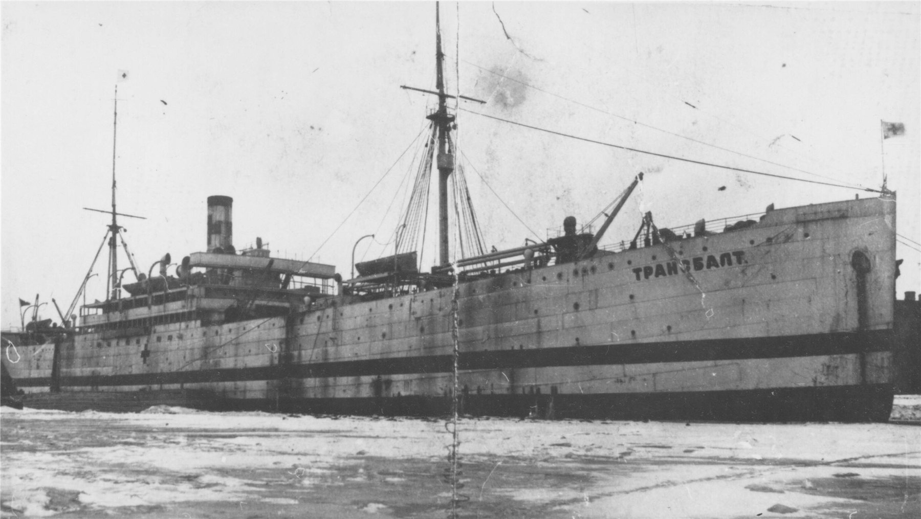 Hospital ship "Transbalt" (ex "Riga")